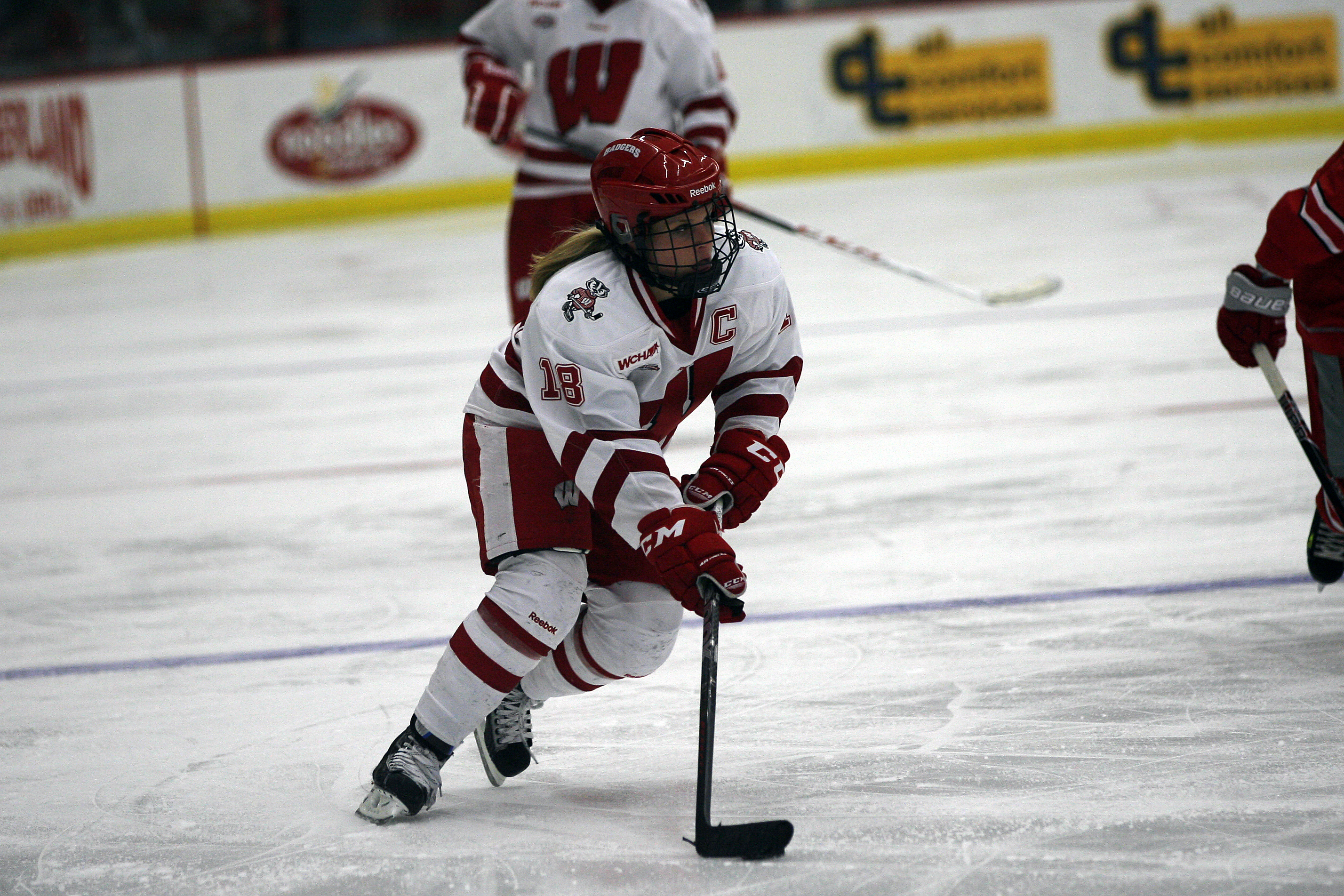 Wisconsin Badgers women's ice hockey forward Brianna Decker